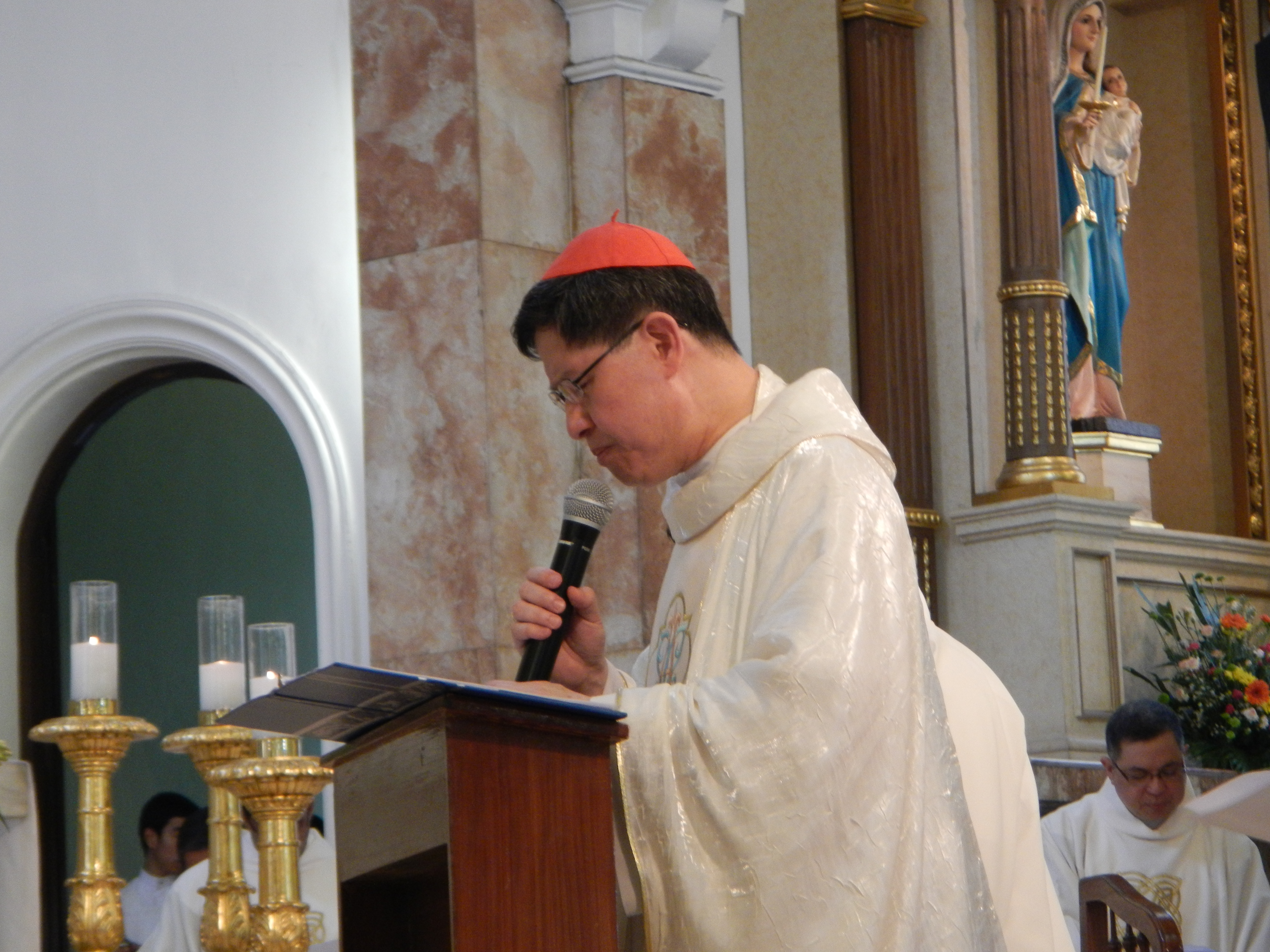 Photos of the First in Philippine History, landmark, historical and momentous: National Consecration to the Immaculate Heart of Mary, 8 June 2013 Consecration to the Immaculate Heart of Mary 8 June 2013 [1] Cardinal Tagle: No corruption in a country entrusted to MaryCardinal Tagle: No corruption in a country entrusted to MaryTagle leads prayer vs corruption, lifts PH to Mary’s heart Saturday, June 8th, 2013 [2] CBCP Circular Letter No. 01 – s. 2013: Celebration of the National Consecration to the Immaculate Heart of Mary on June 8, 2013.[3] + JOSE S. PALMA, D.D.[4] - "Bayang Sumisinta Kay Maria" ‘Act of Consecration to Mary,’ Marian recollection on June 8 June 2nd, 2013 Observance: Consecration of the Philippines to the Immaculate Heart of Mary Consecration to the Immaculate Heart of Mary June 8, 2013 [5] [6] THE Act of Consecration to the Immaculate Heart of Mary will be held in all the cathedrals, shrines, and parishes all over the country at 10 a.m June 8, 20123. Tagle, may panawagan sa mga Pilipino The National Consecration of the Philippines and the Catholic Faithful to the Immaculate Heart of Mary as "Isang Bayang Sumisinta kay Maria" (Pueblo Amante de Maria) took place on June 8, 2013, the Feast of the Immaculate Heart of Mary. It was led by Luis Antonio Tagle[7] (Latin: Aloysius Antonius Tagle